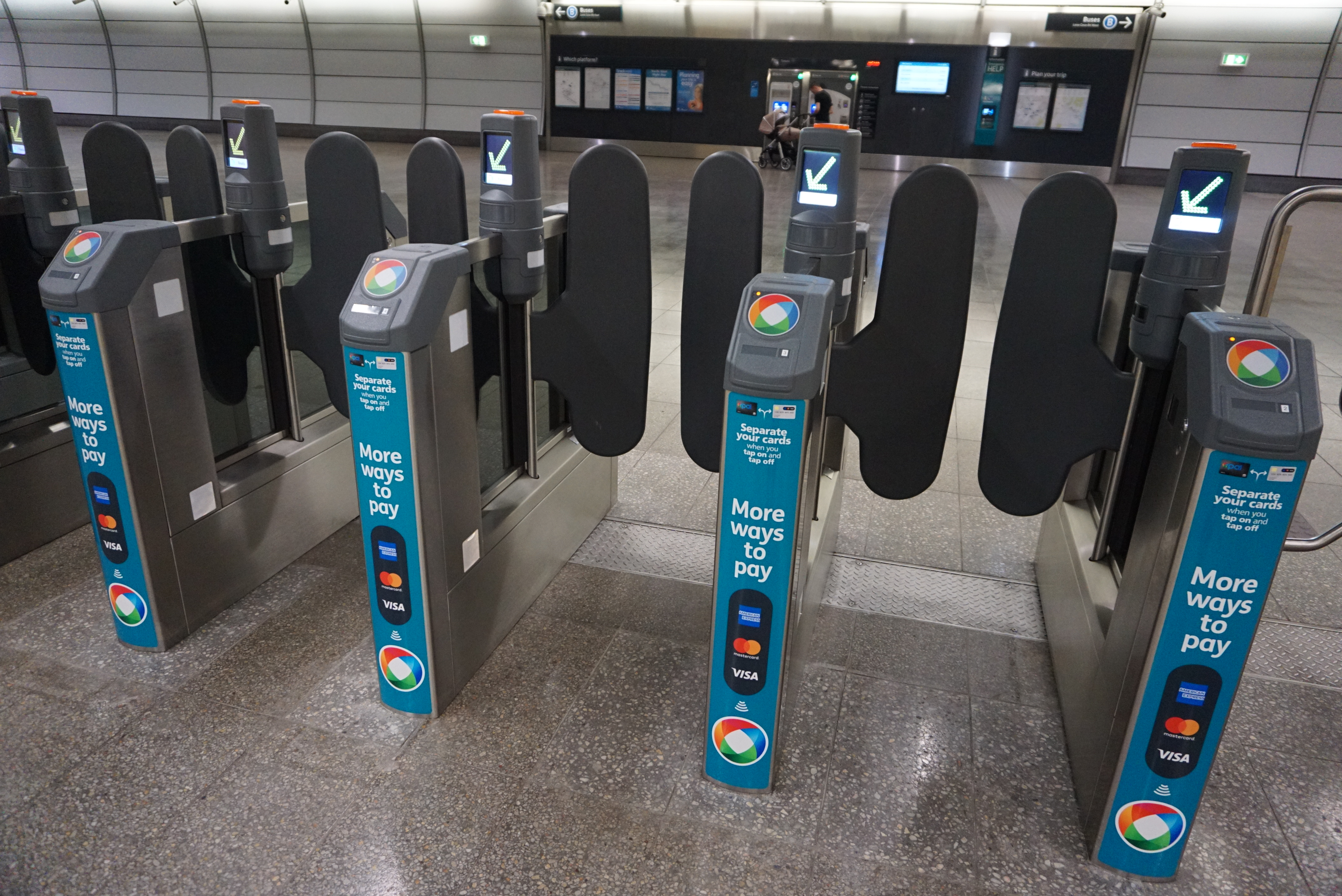 Sydney Metro